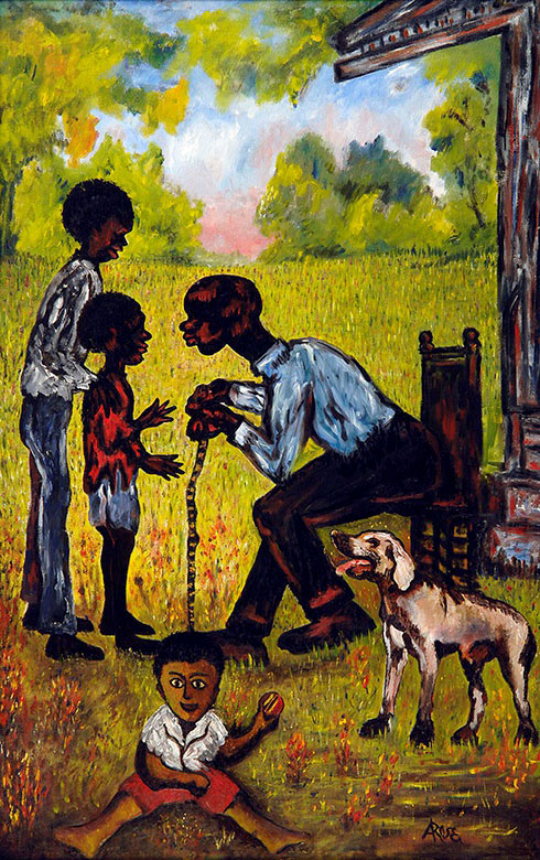 Image of Original artwork by Arthur Rose Sr.